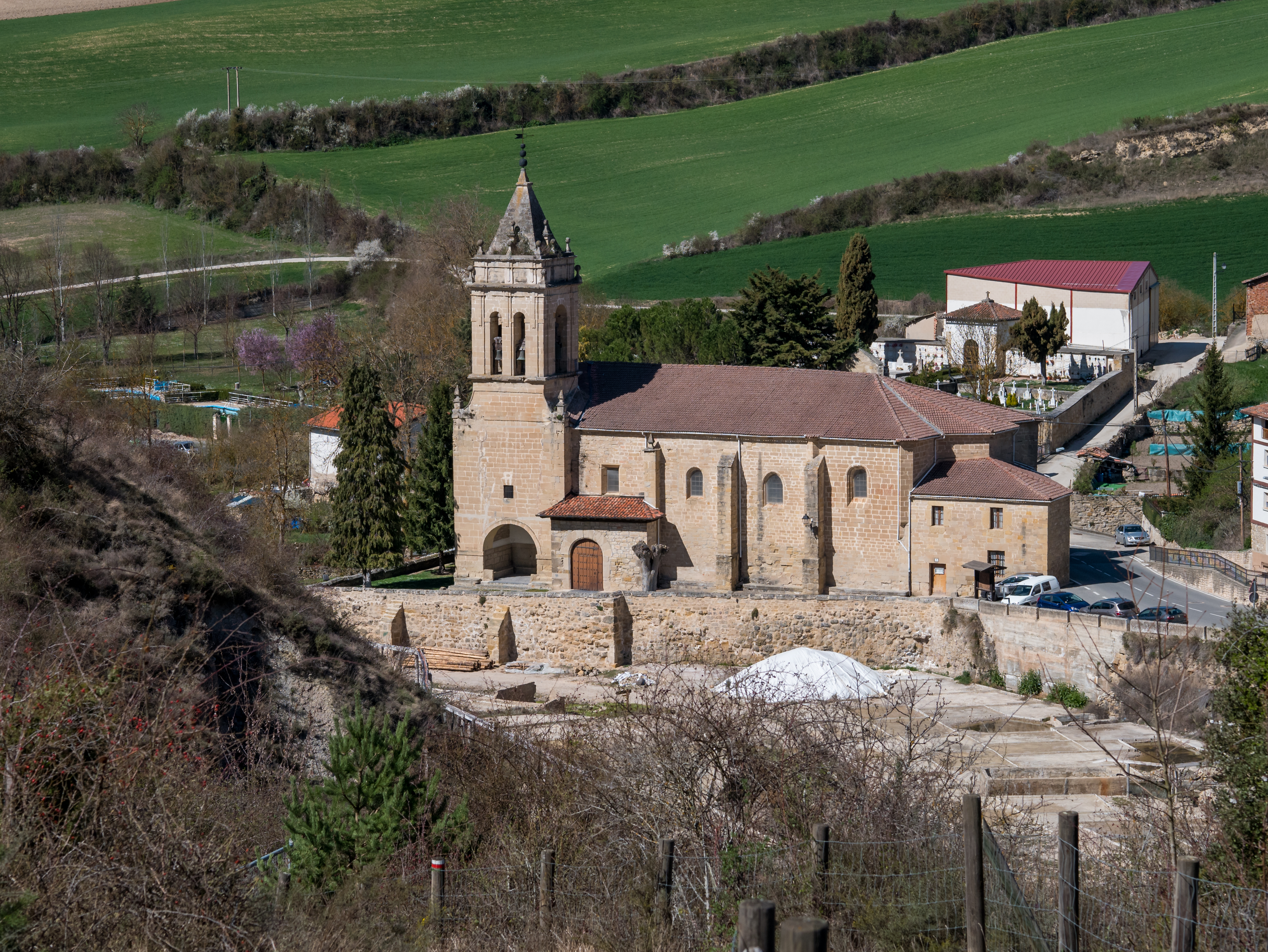 Church of Salinas de Añana. Álava, Basque Country, Spain